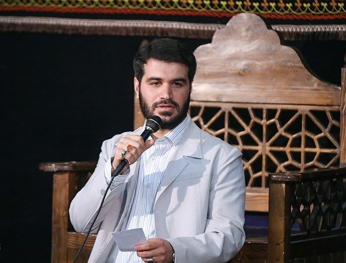 Meysam Motiee in Weekly rituals of unknown martyrs